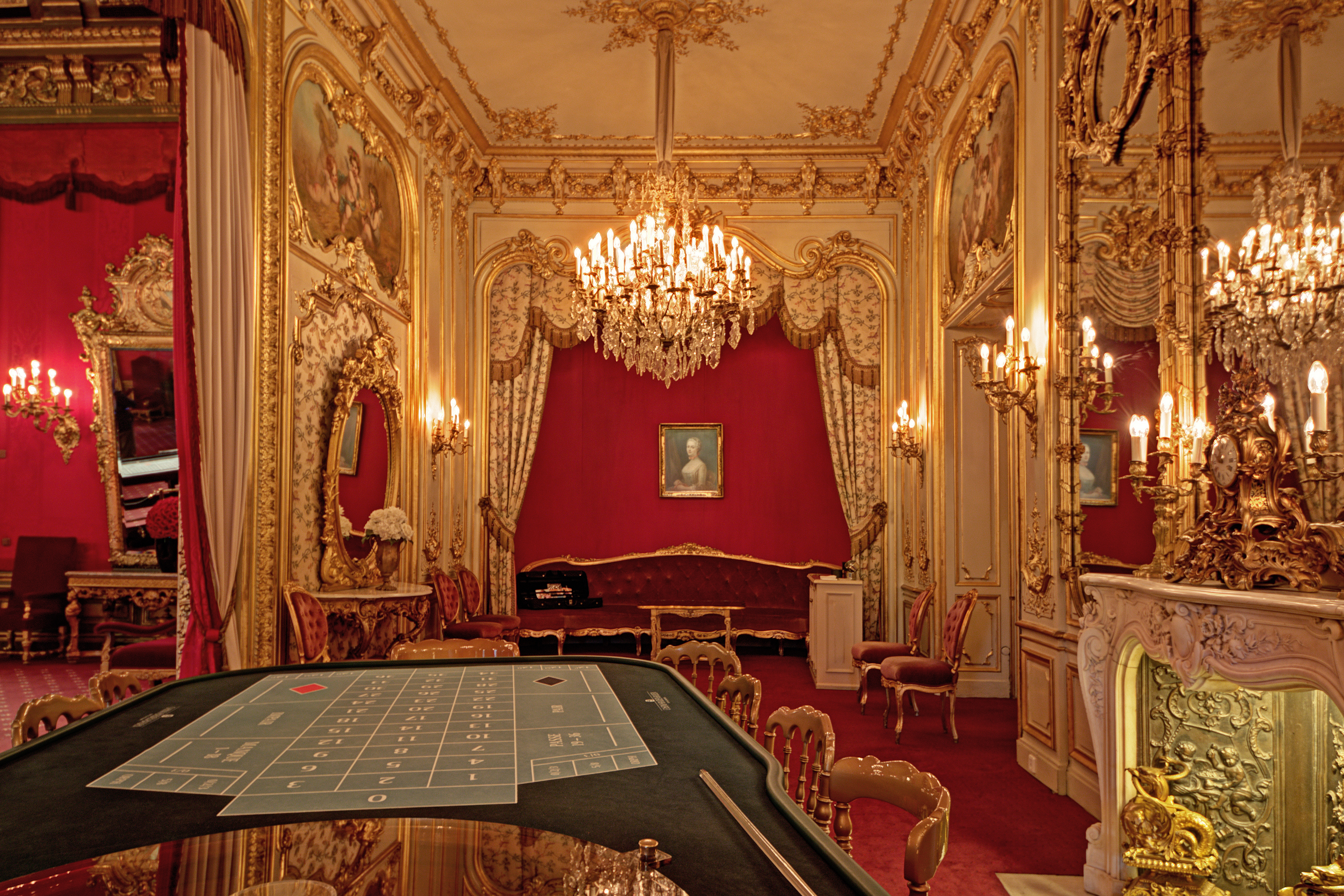 The Casino in Baden-Baden (BW, Germany).